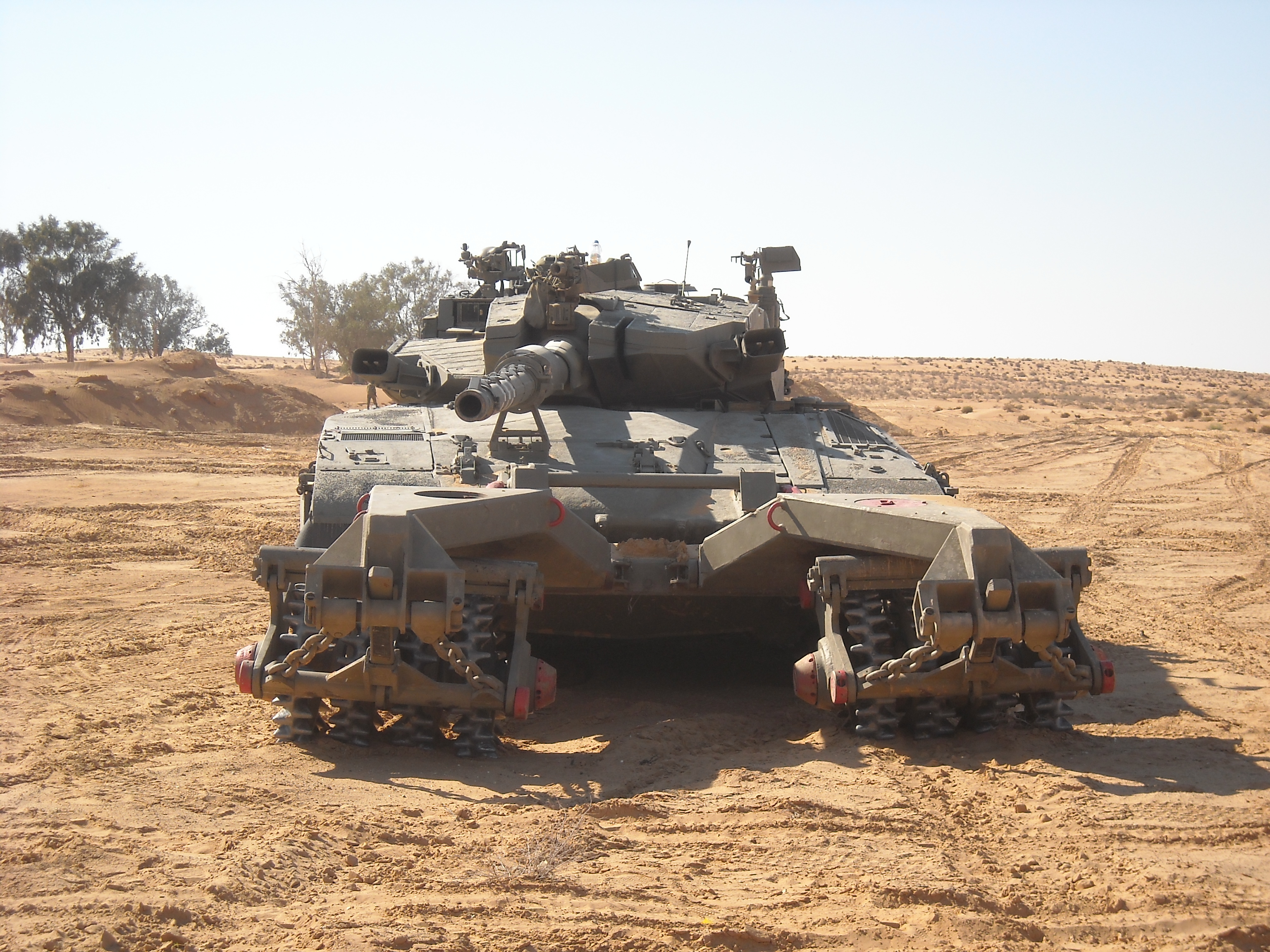 a merkava mk3 with Mine roller